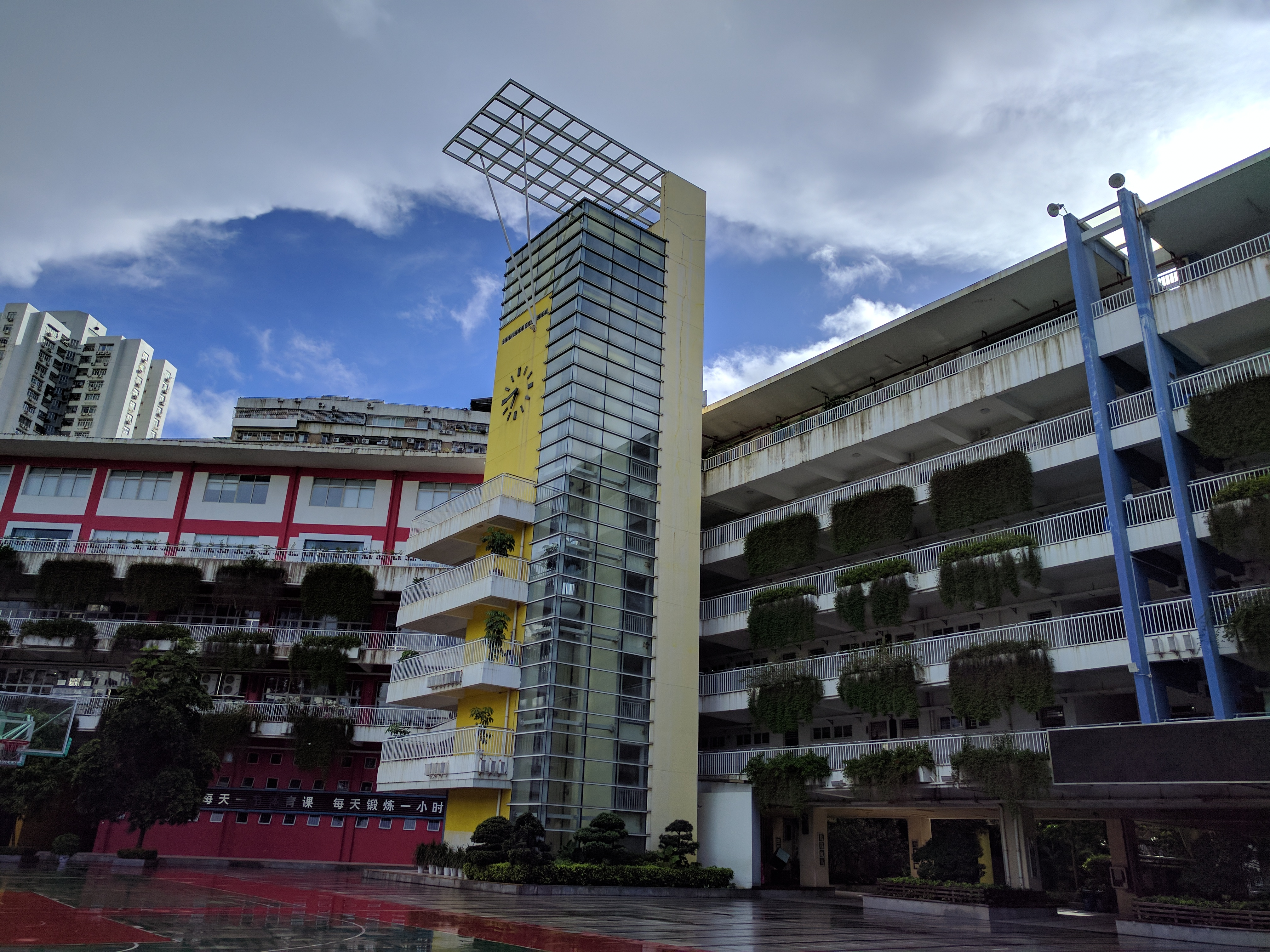 Clock Tower of SZEXPSPD